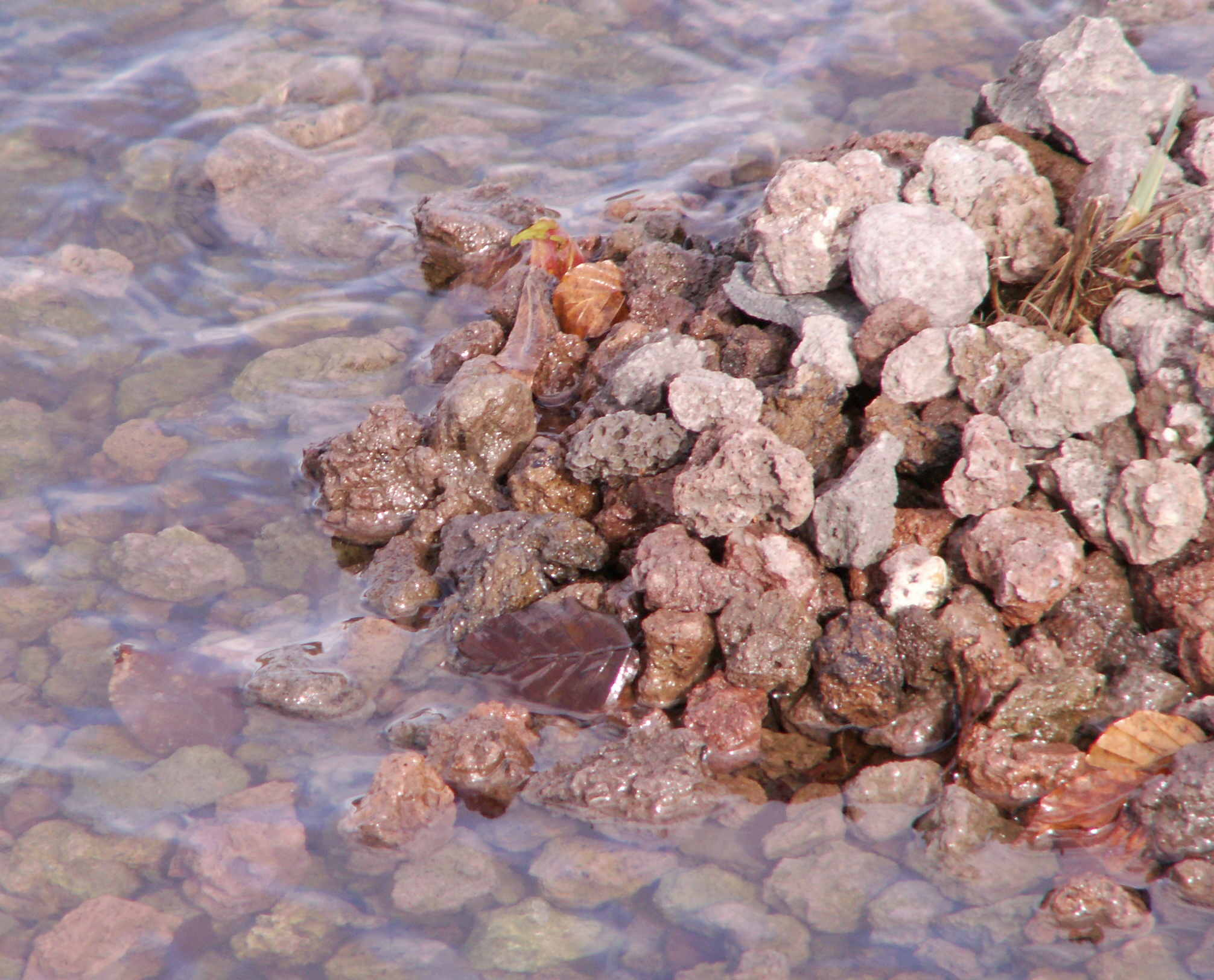 A partially-submerged pile of lavastone pebbles. The lavastones are located in a lava filter, used to purify rainwater. The water is then used to irrigate agricultural land.